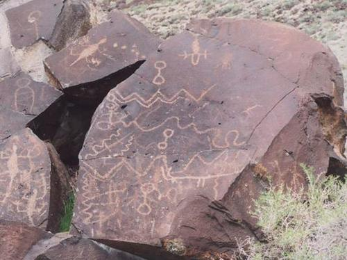 The prehistoric petroglyphs at Greaser Canyon near Adel, Oregon, United States, are listed on the US National Register of Historic Places (NRHP). NRHP reference number 74002293